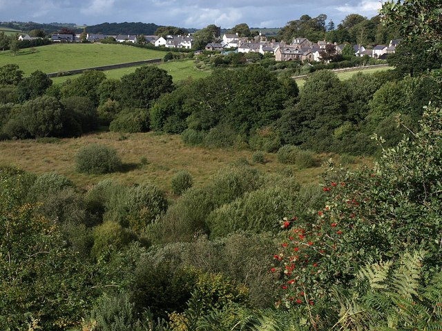 Padley Common. Seen from a path descending Meldon Hill. "Padley Common is a 13 hectare area of land owned by the parish council and forms part of Chagford Commons. It is an area of purple moor grass and rush pasture and provides important habitats for many species, including the marsh fritilliary butterfly, the reed bunting and woodcock and is grazed by cattle and Dartmoor ponies." Above, beside Chagford Open Field (see 716798), is housing on New Street, Chagford.